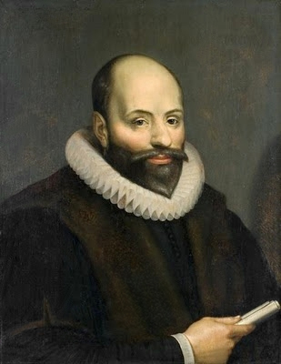 James Arminius (1560-1609), Pastor, Professor, and Theologian. Portrait of Jacobus Arminius; One of a pair with a portrait of his widow, Lijsbet Reaal by David Bailly (1620; pl. 4). Description of picture obtained from Arminius, Arminianism, and Europe: Jacobus Arminius (1559/60-1609), edited by Th. Marius van Leeuwen; Keith D. Stanglin; Marijke Tolsma (London: Brill, 2009), 256.